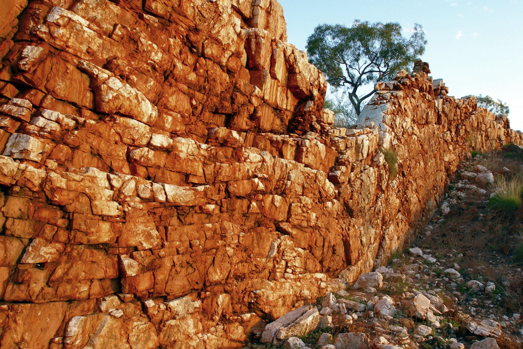 The Kimberley region, Halls Creek, Western Australia, China Wall formation